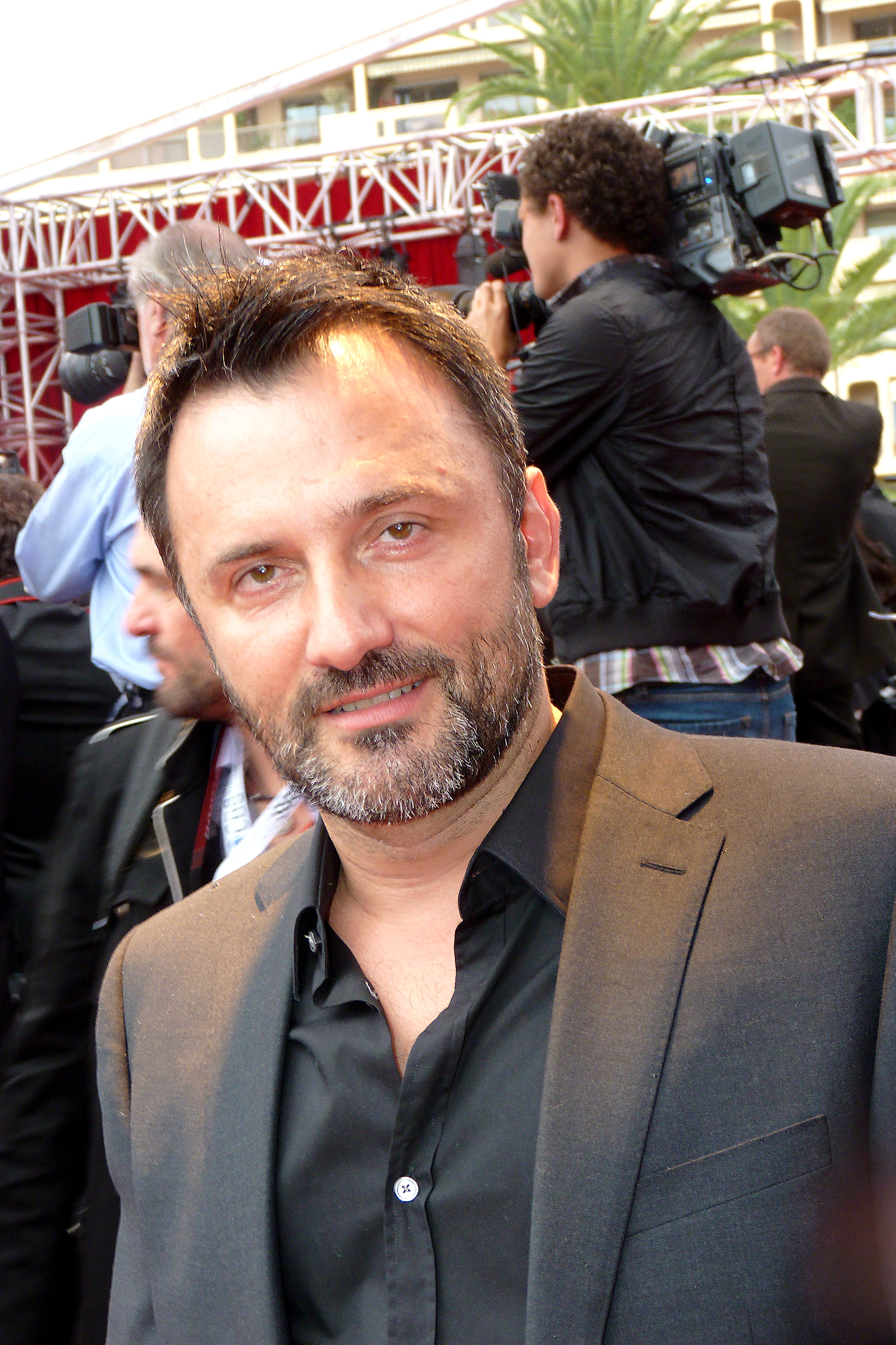 Frédéric Lopez at the 2012 Monte-Carlo Television Festival.